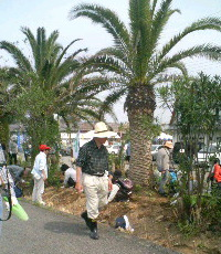 Akira Miyawaki in 2007, supervising the planting of native trees and vegetation at Kii Tanabe